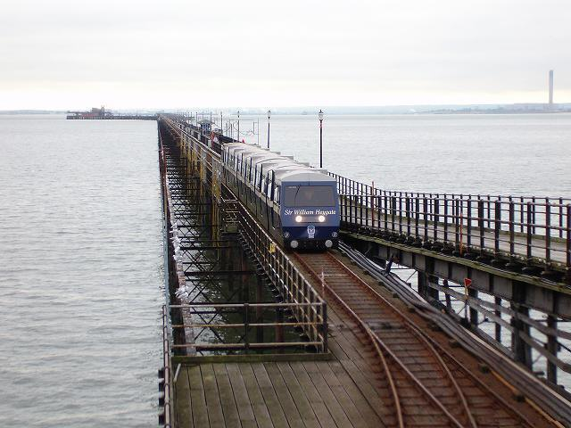 Photo of Southend Pier with 'Sir William Heygate' approaching the shore terminus.